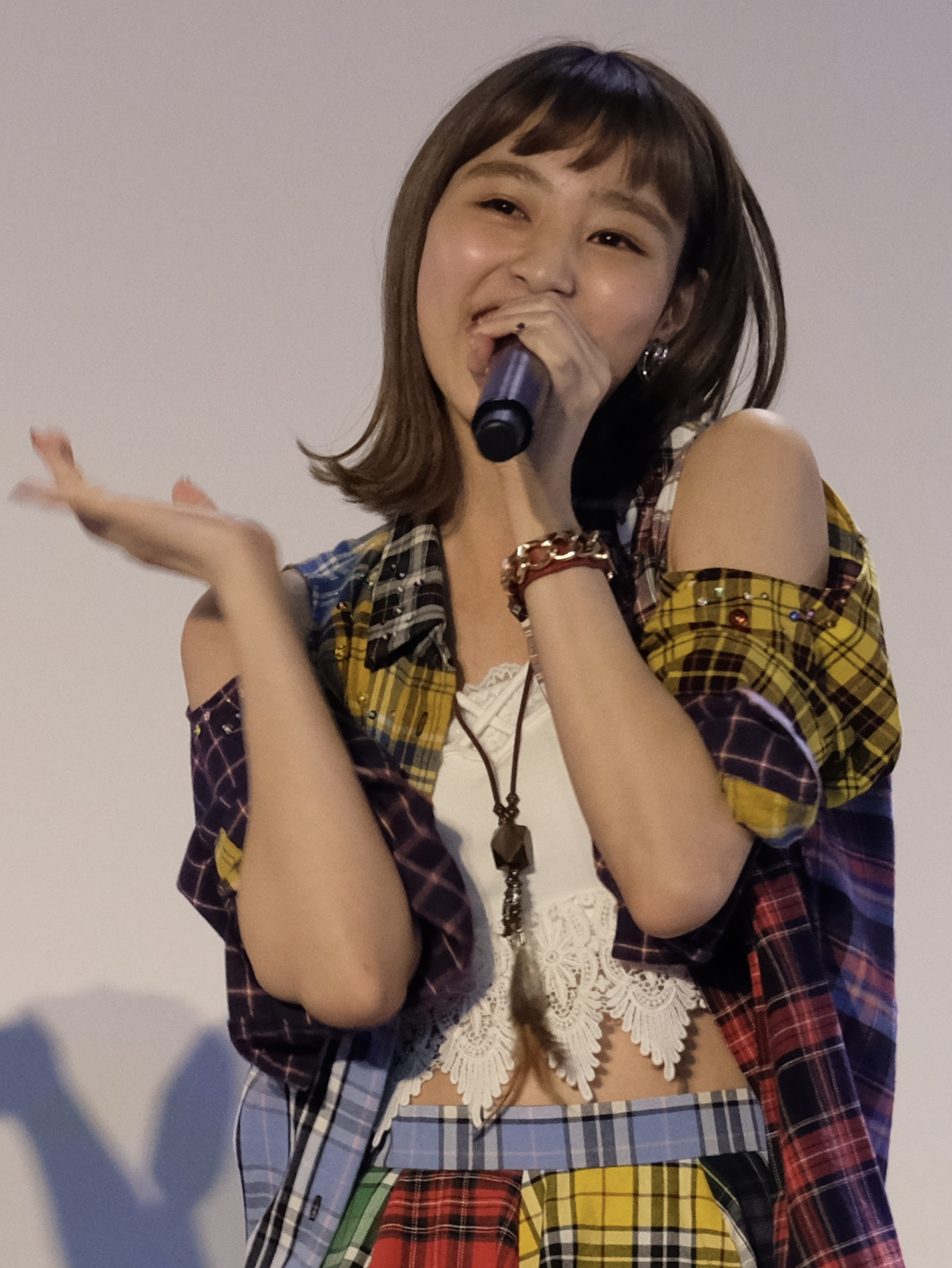 The 2nd ASEAN-Japan TV Festival Public Event